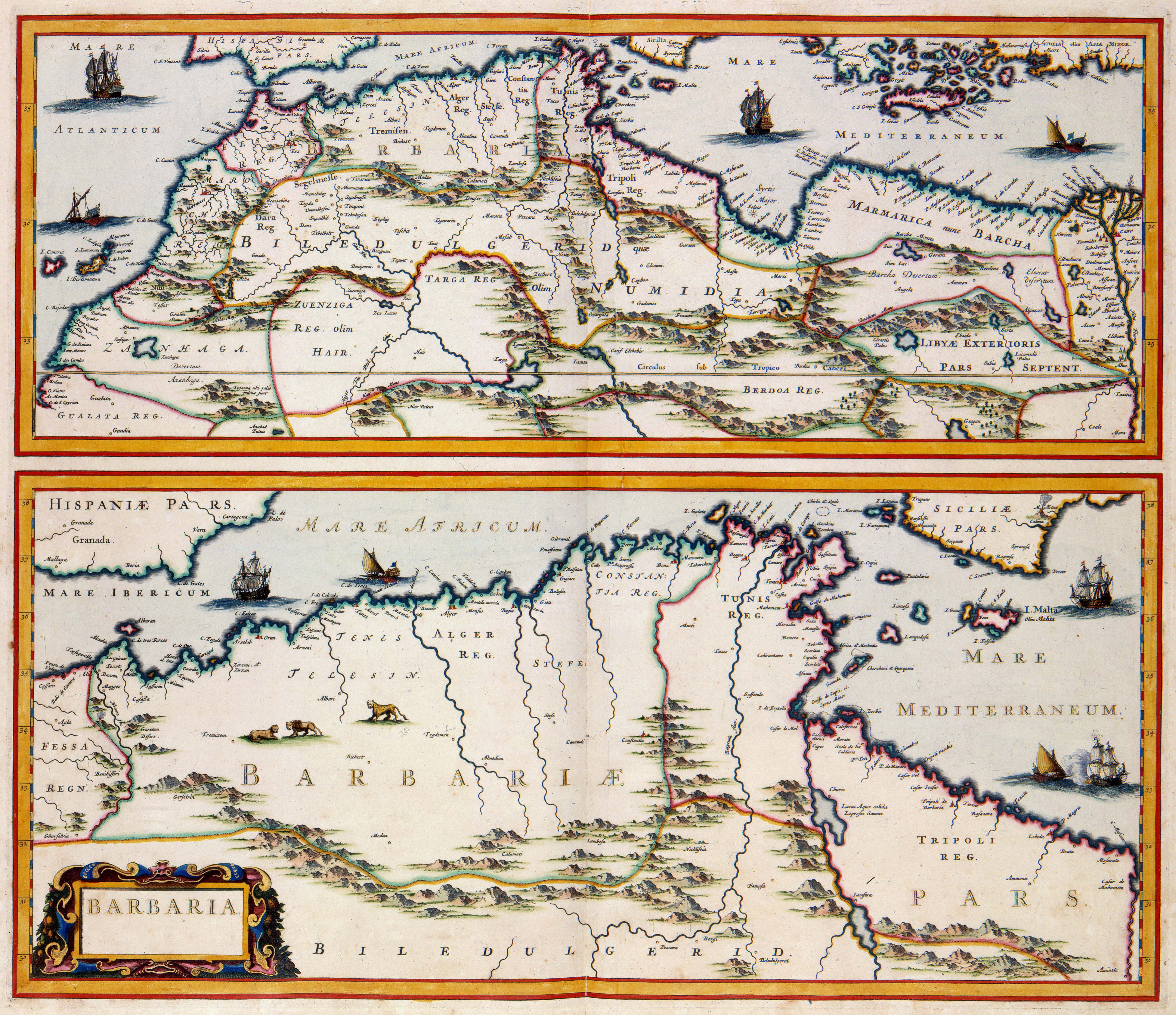 This map by Jan Janssonius (1588-1664) shows the coast of North Africa, an area known in the 17th century as Barbaria. The upper part of the map represents a general map of North-Africa from the delta of the River Nile to the Canary Islands. The bottom part shows large areas of Algeria, Tunesia and Libya.